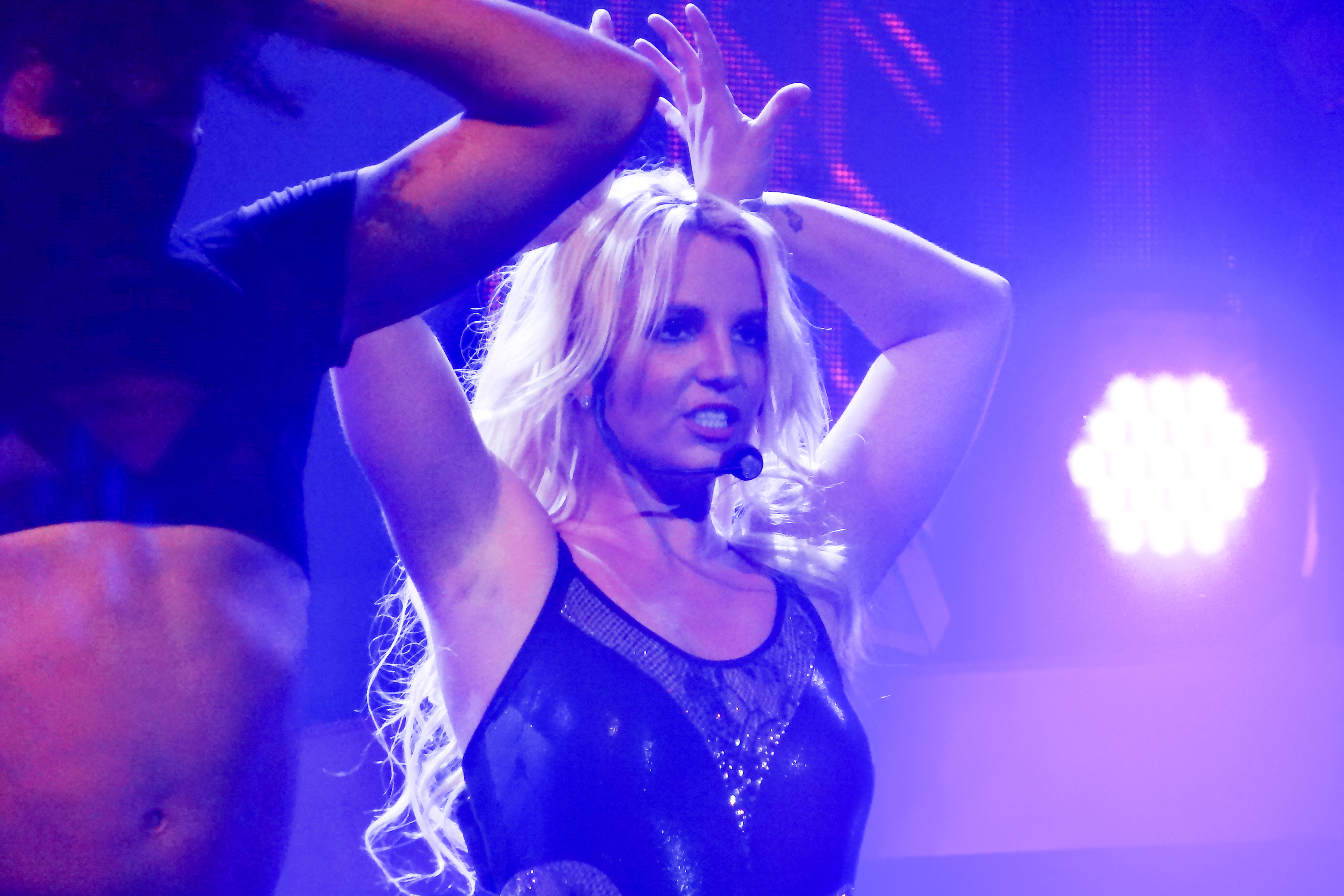 I'm a Slave 4 U